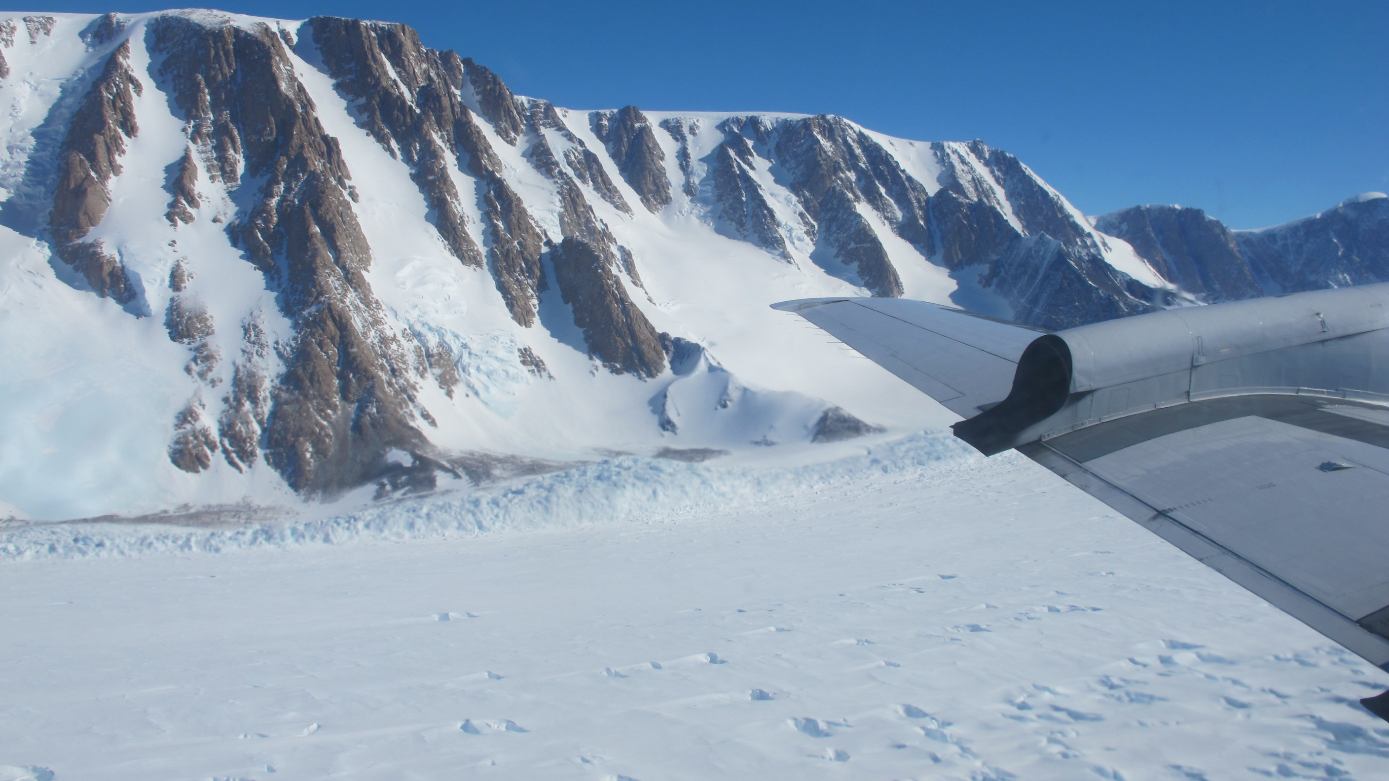 A sidewall of Antarctica's Priestley Glacier seen from the NASA P-3 during an IceBridge survey of Victoria Land on Nov. 20, 2013. Credit: NASA / Jim Yungel